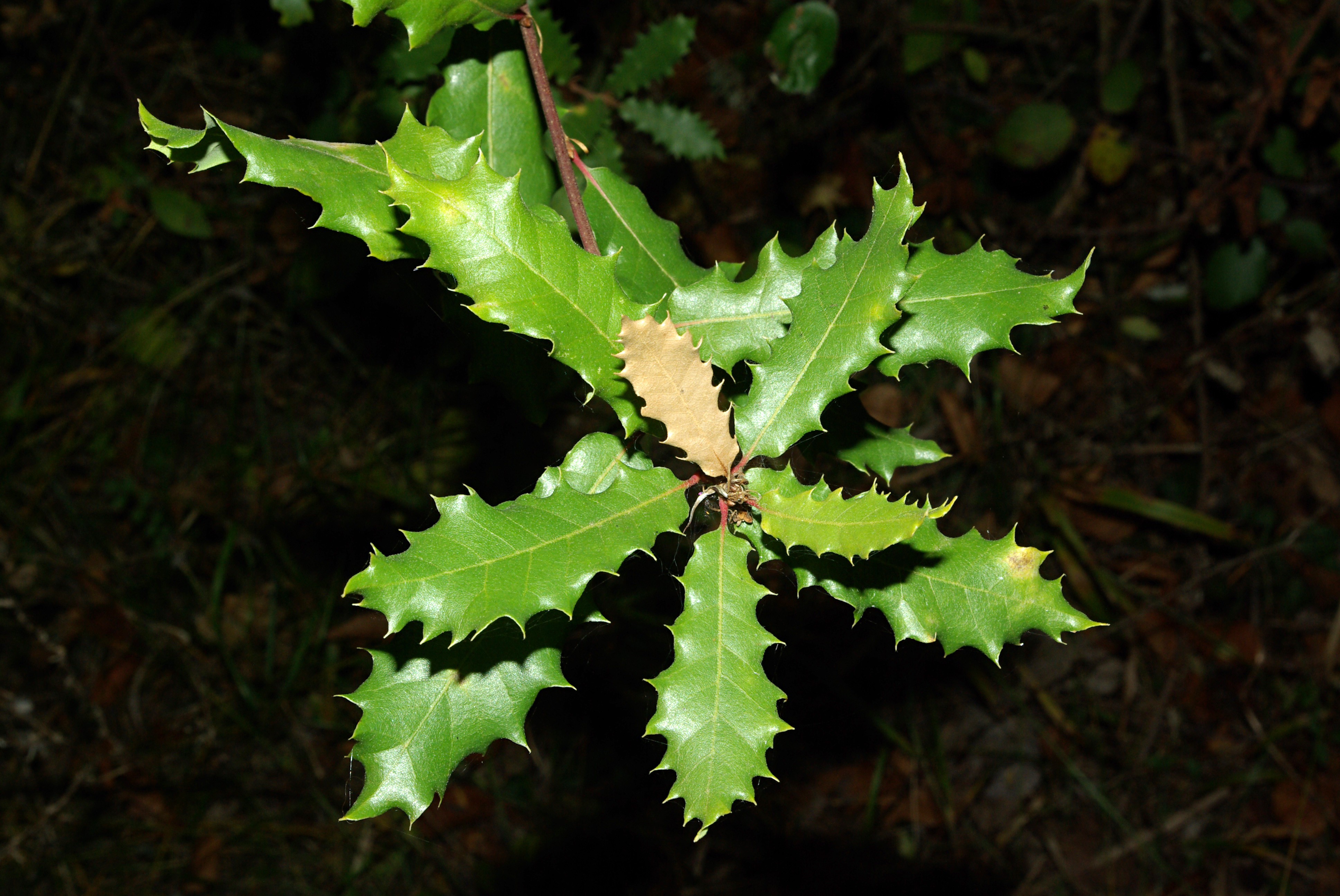 Leaves of Portuguese oak (Quercus faginea). León (Spain).